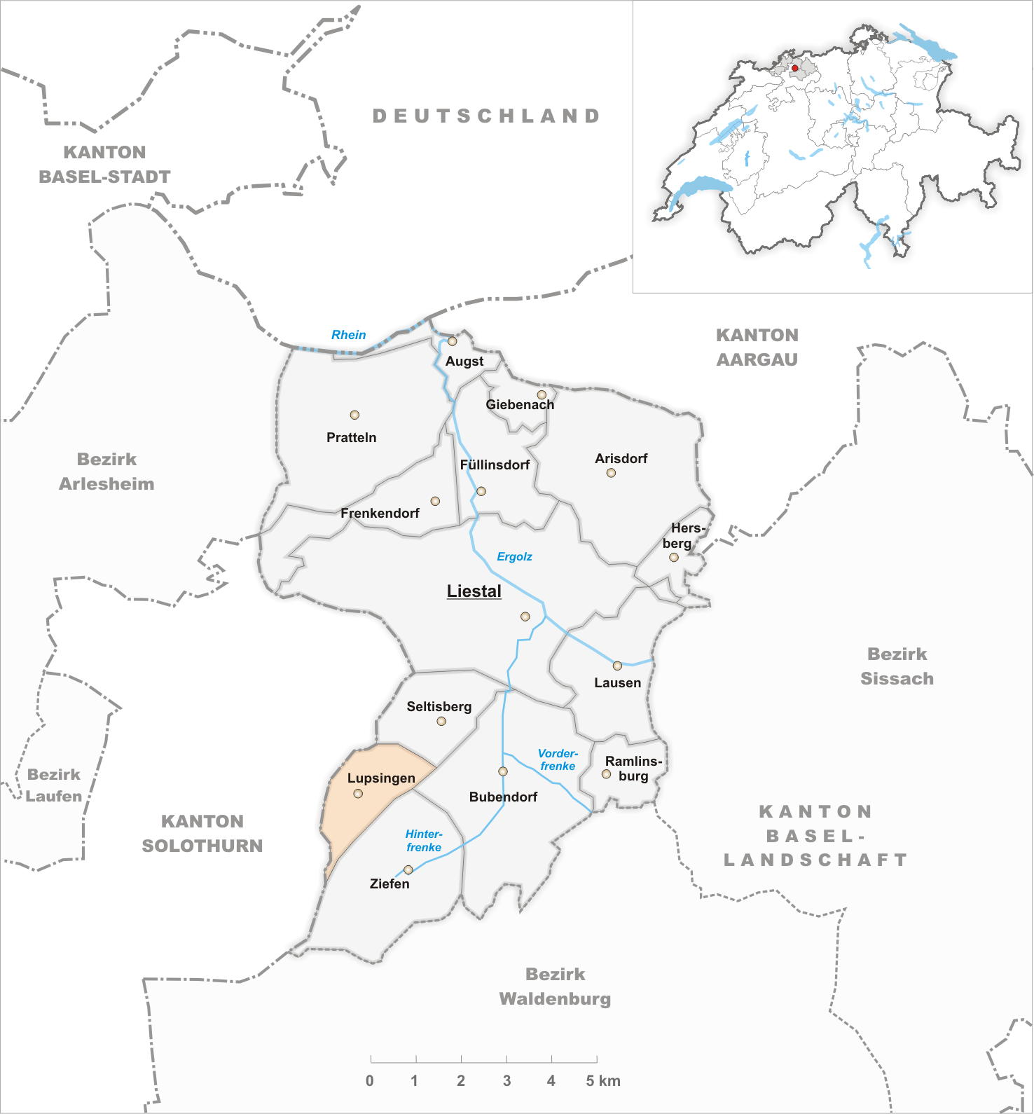 Municipality Lupsingen